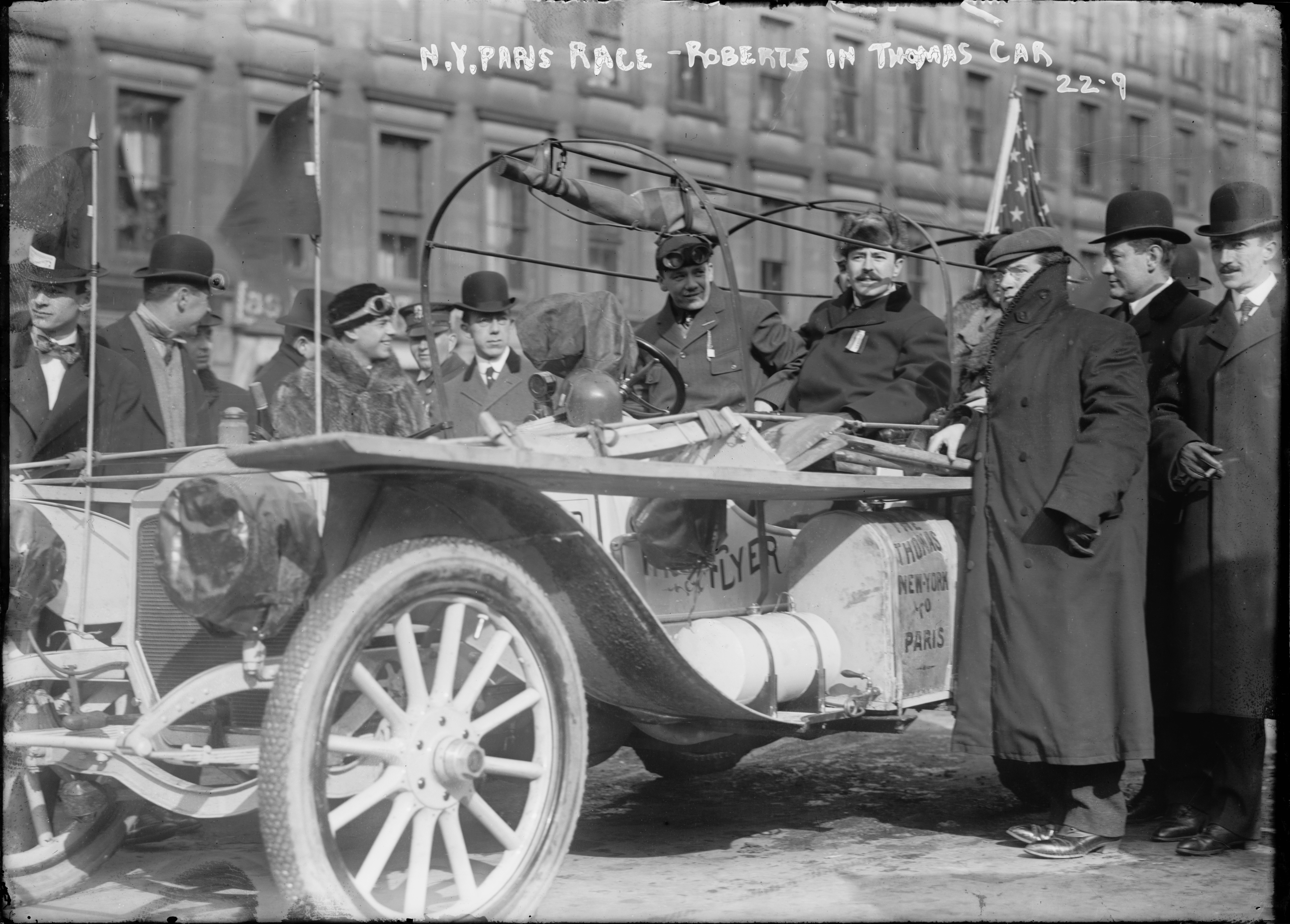 Roberts in Thomas car at the 1908 New York to Paris Race.